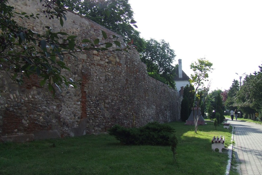 View from Sebeş, Alba County Romania